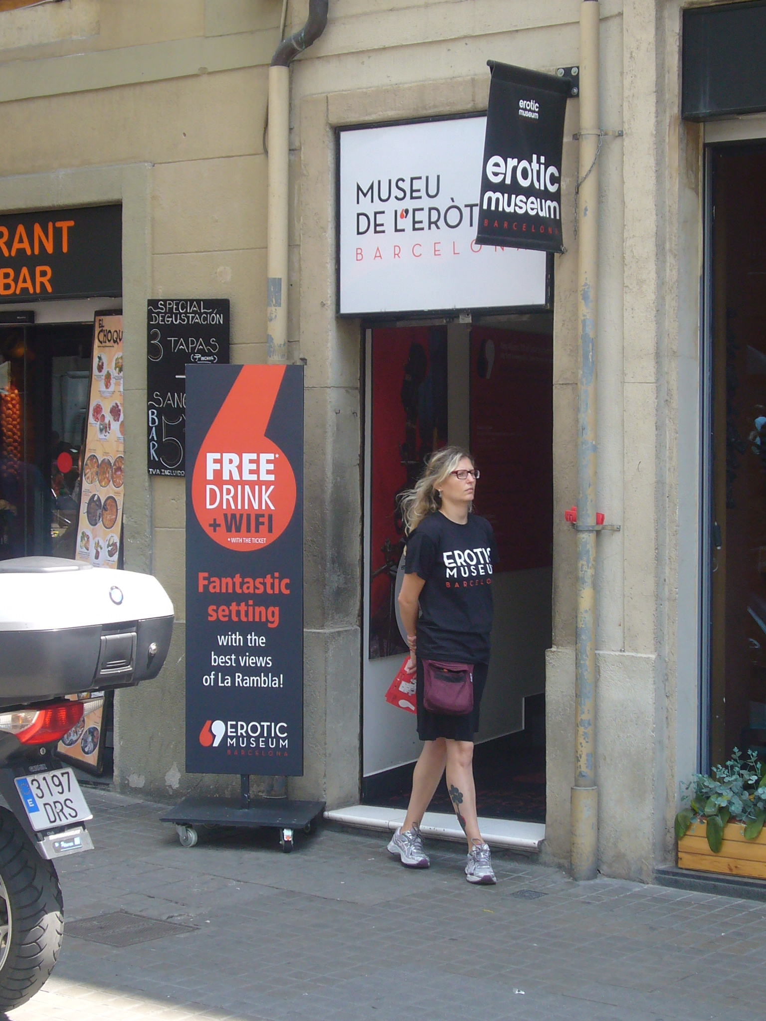 Erotic Museum of Barcelona